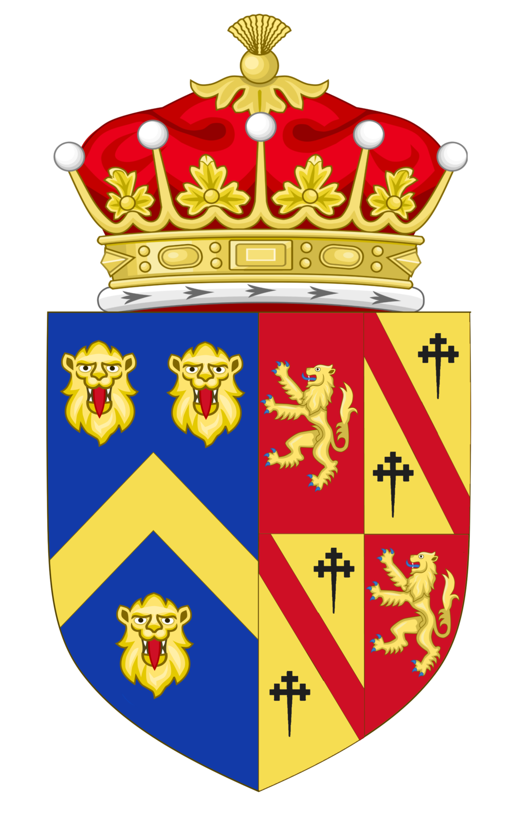 Uploaded from WIKIA, which uses CC-BY-SA license, so this should be repostable. File by Lord ironfield.